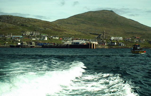 Castlebay, Barra. Looking NNE to Castlebay with Heaval in the background